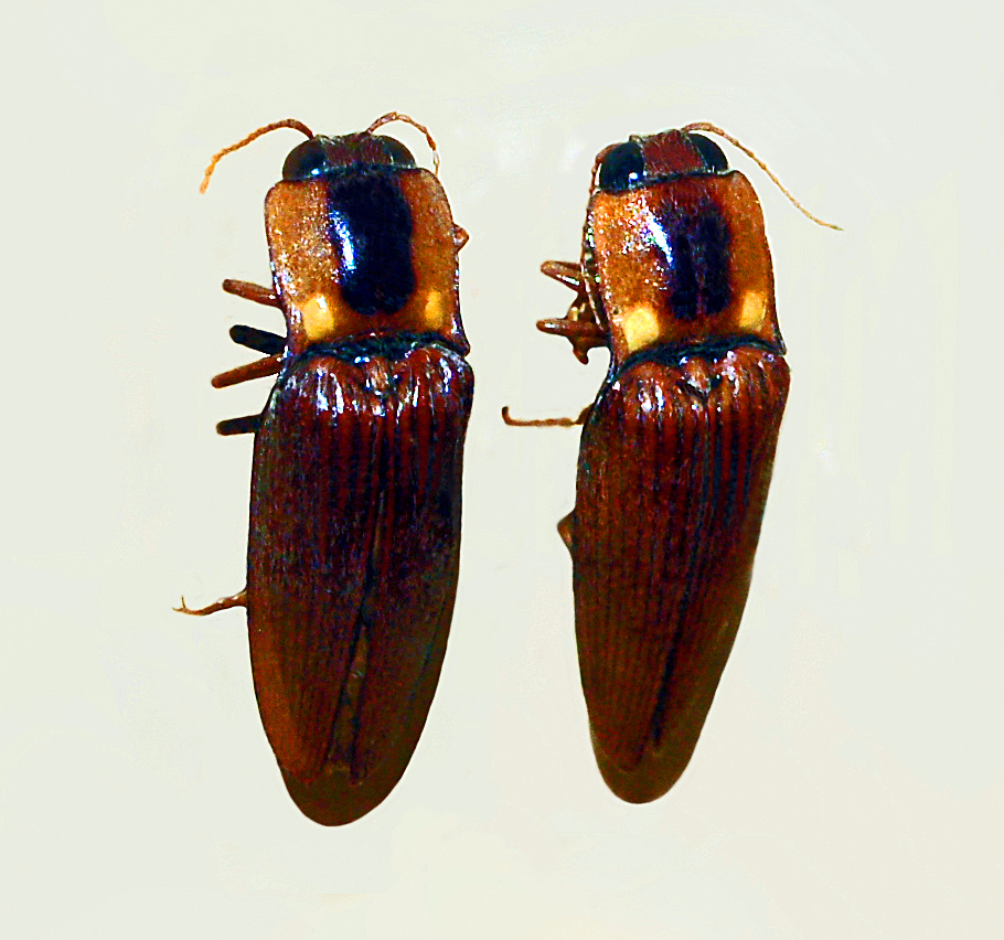 Pyrearinus candelarius from Argentina. Mounted specimen